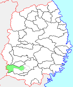 map of former Isawa Town, Iwate Prefecture, Japan